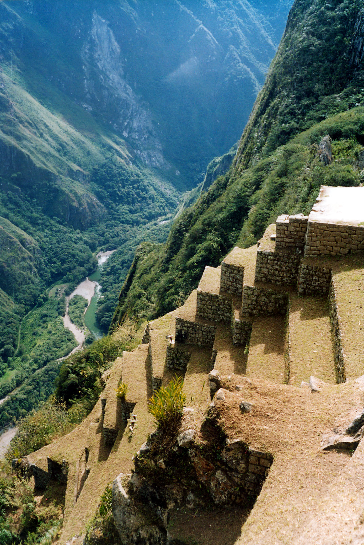 Machu Picchu, Peru. The Urubamba river seen 600 m from above.